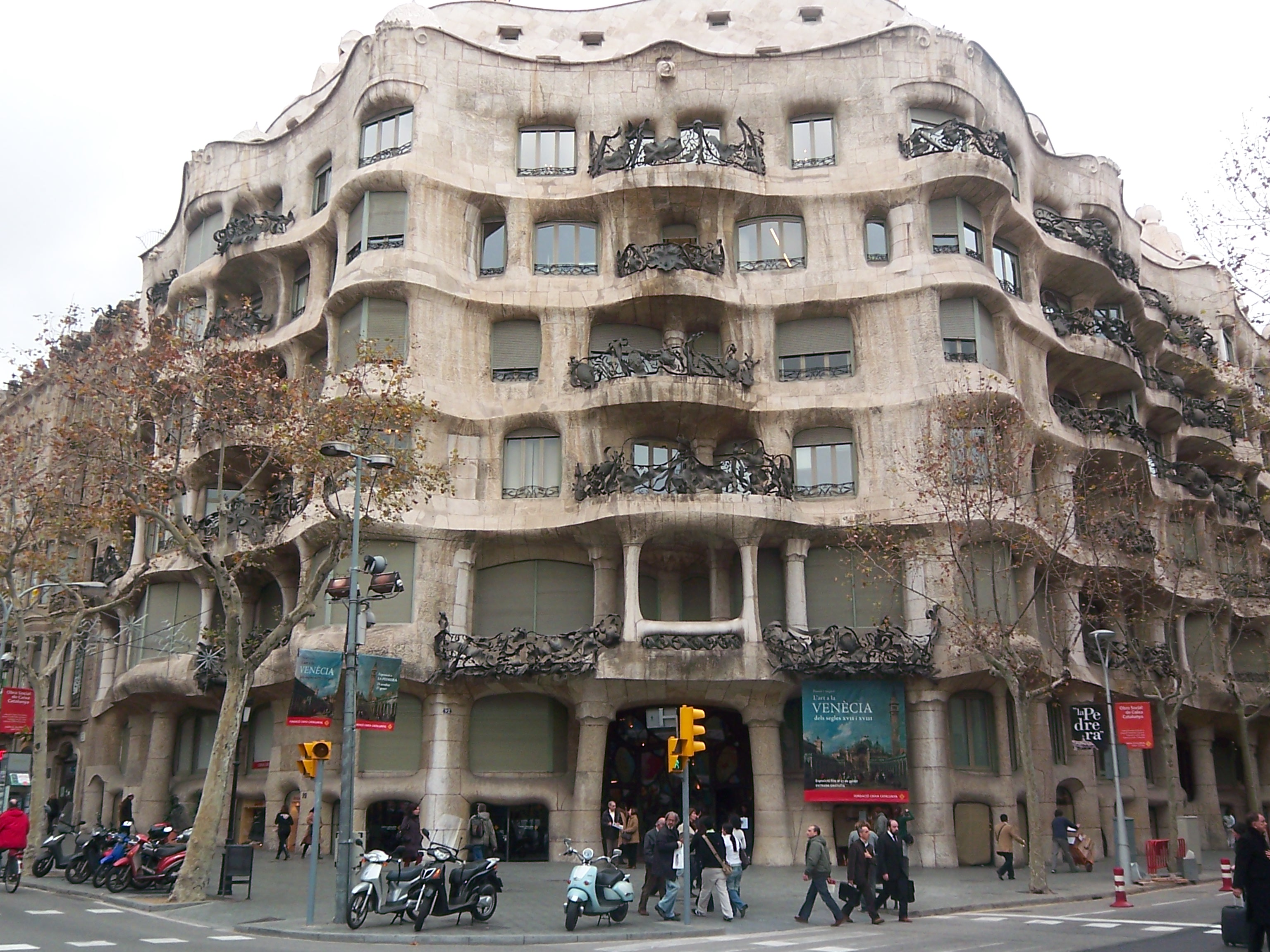 This picture was taken by myself when I was travelling to Barcelona on January 2008, taken by a Kodak Camera.